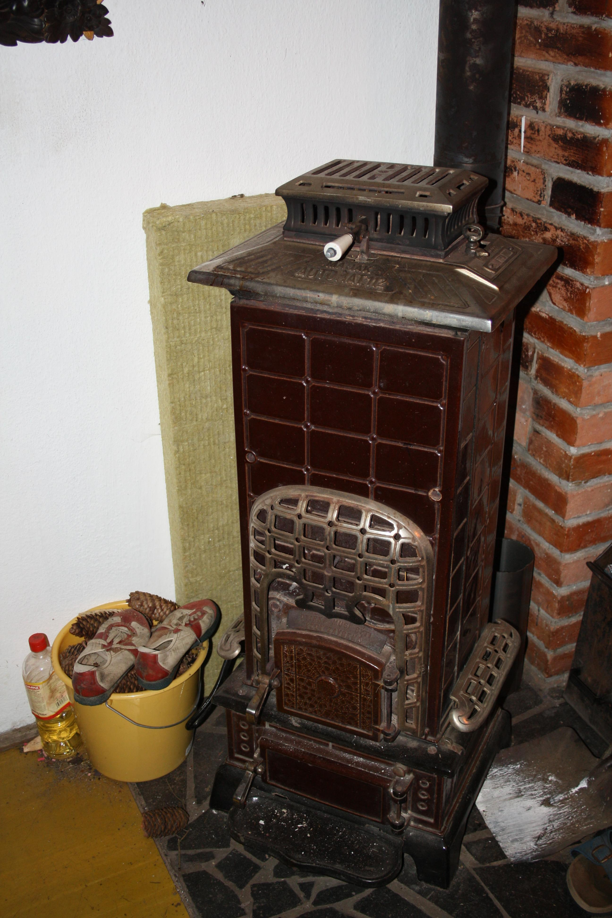 American heating stoves Maják Automat 112 in Czech Republic.